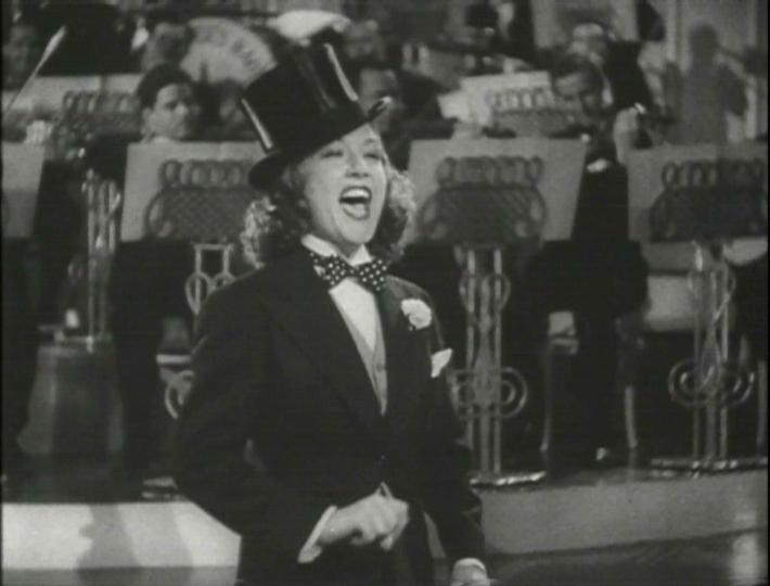 Screenshot of Ethel Merman from the trailer for the film Alexander's Ragtime Band